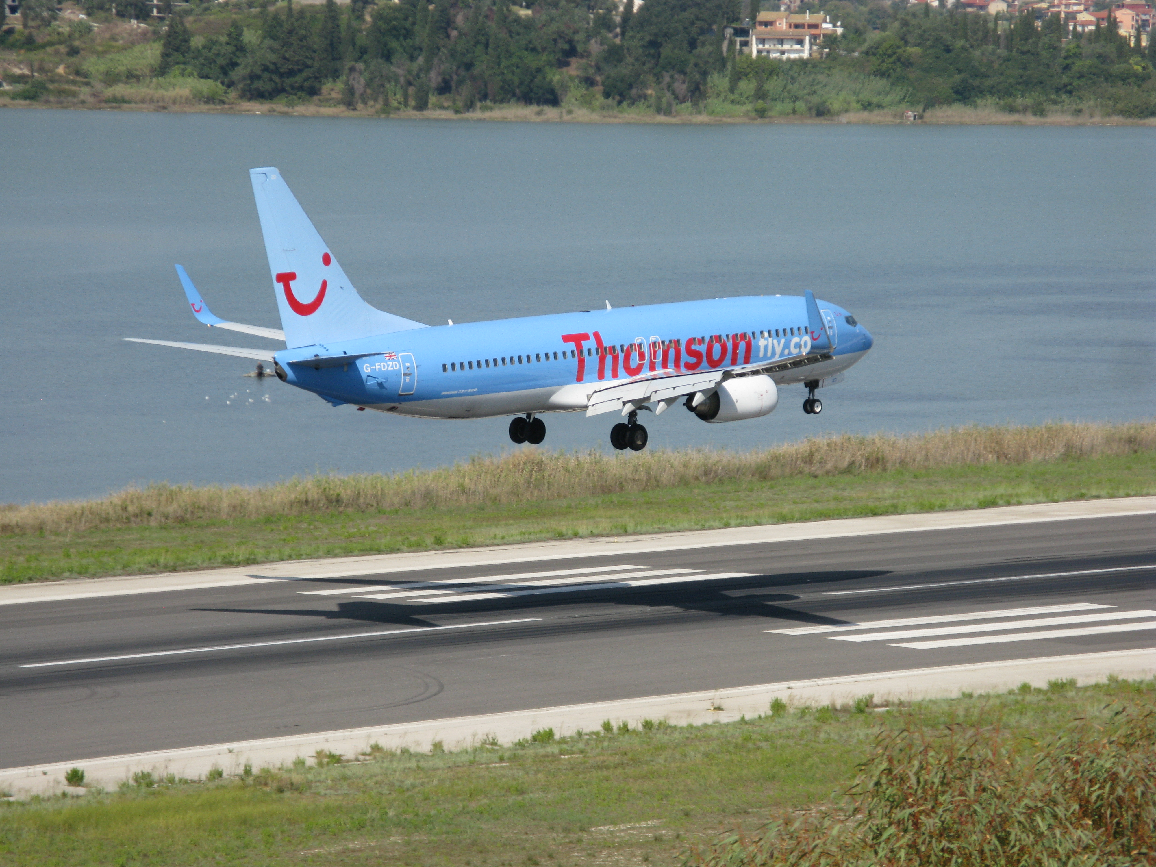 Landing in Corfu.